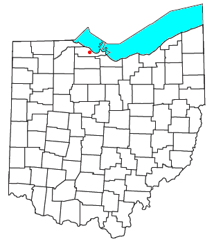 Locator map of the unincorporated community of Lacarne in Ottawa County, Ohio, United States.